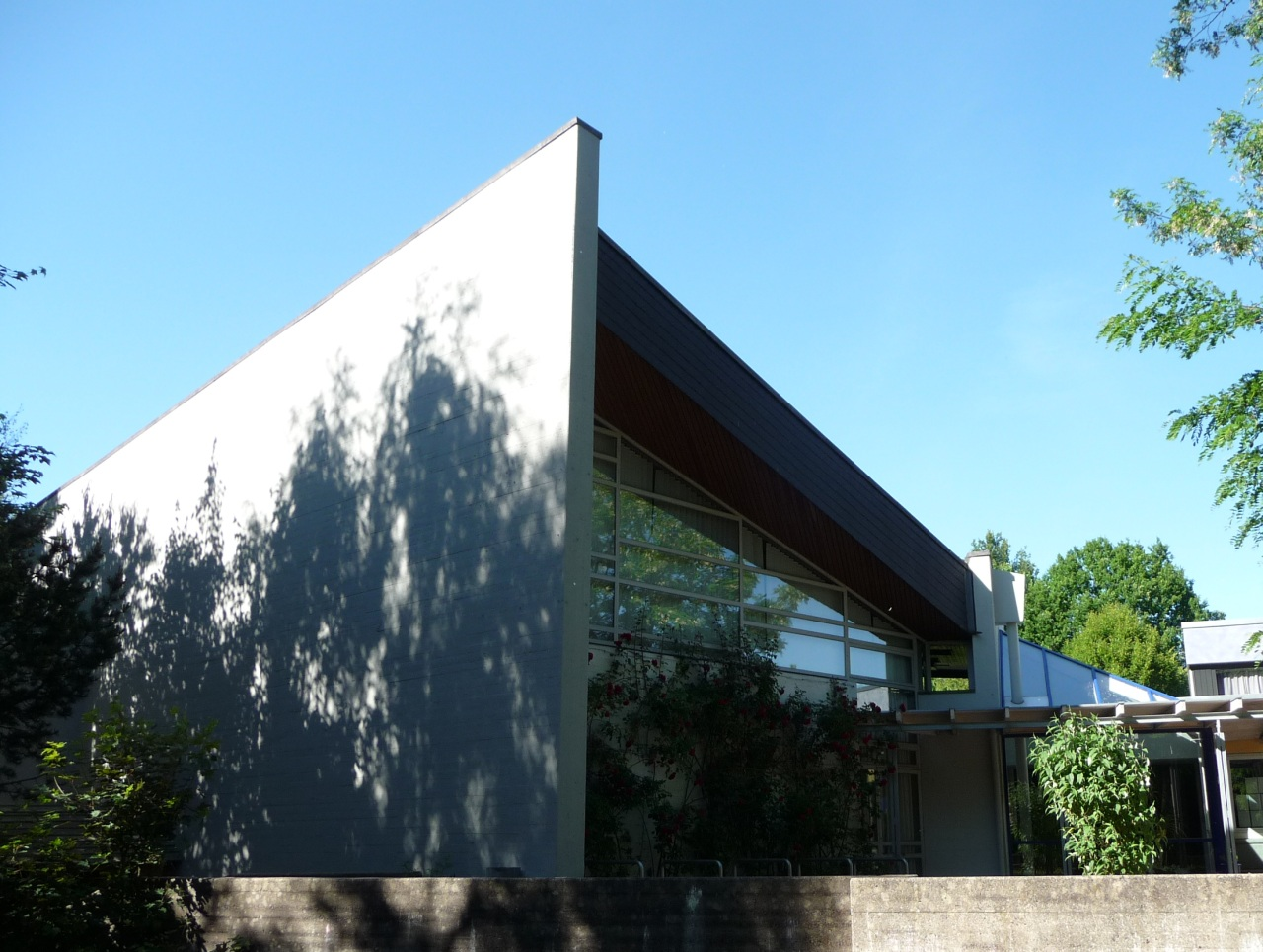 Ellener-Brok-Church in Bremen-Osterholz